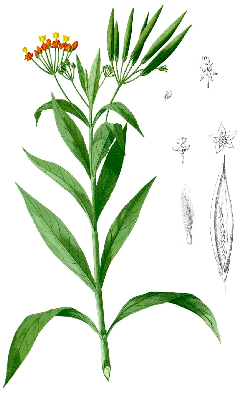 Plate from book